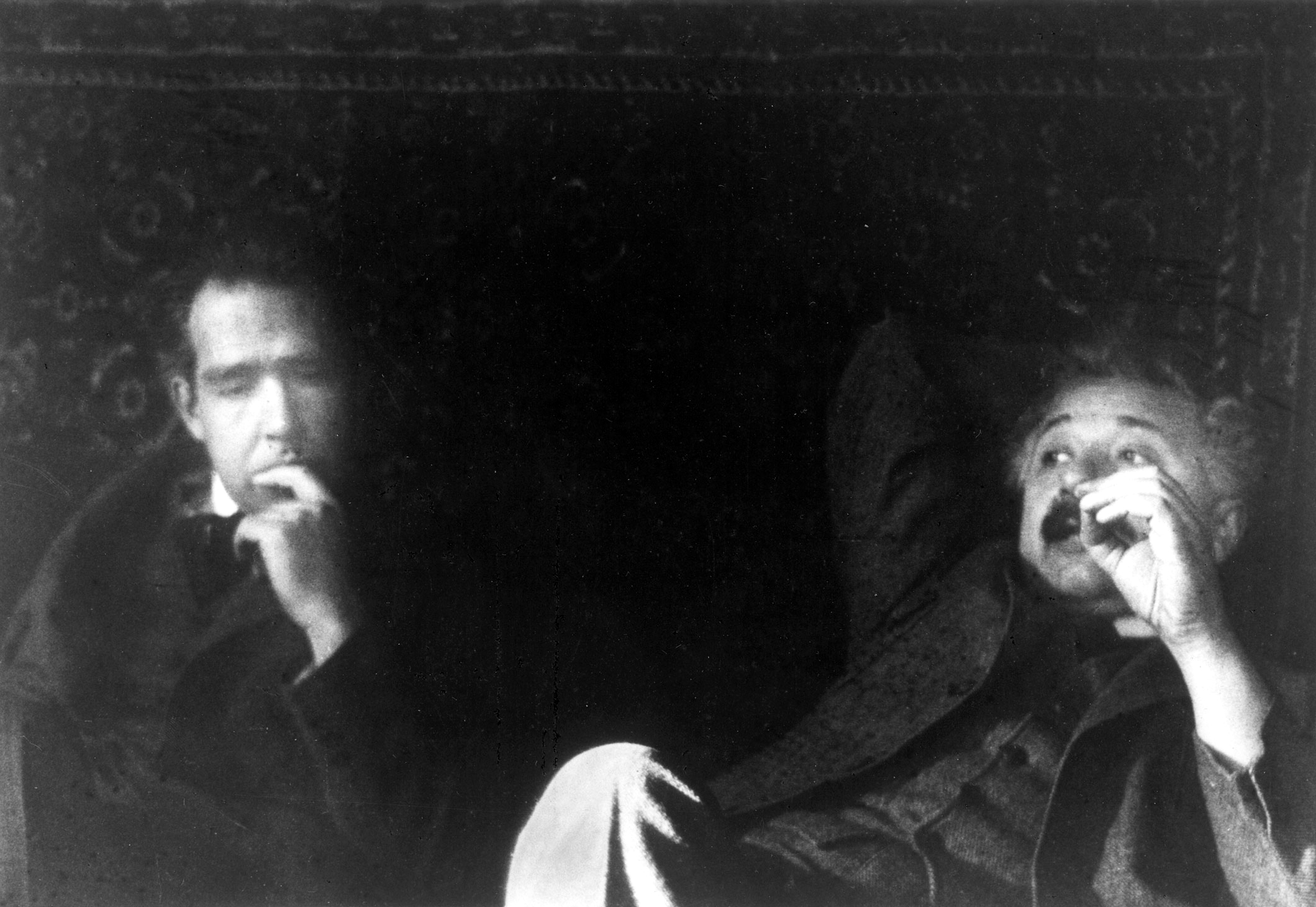 Niels Bohr and Albert Einstein Foto by Paul Ehrenfest (1880-1933). The picture was taken at Ehrenfest's home in Leiden, the occasion was most likely the 50th anniversary of Hendrik Lorentz' doctorate (December 11, 1925)